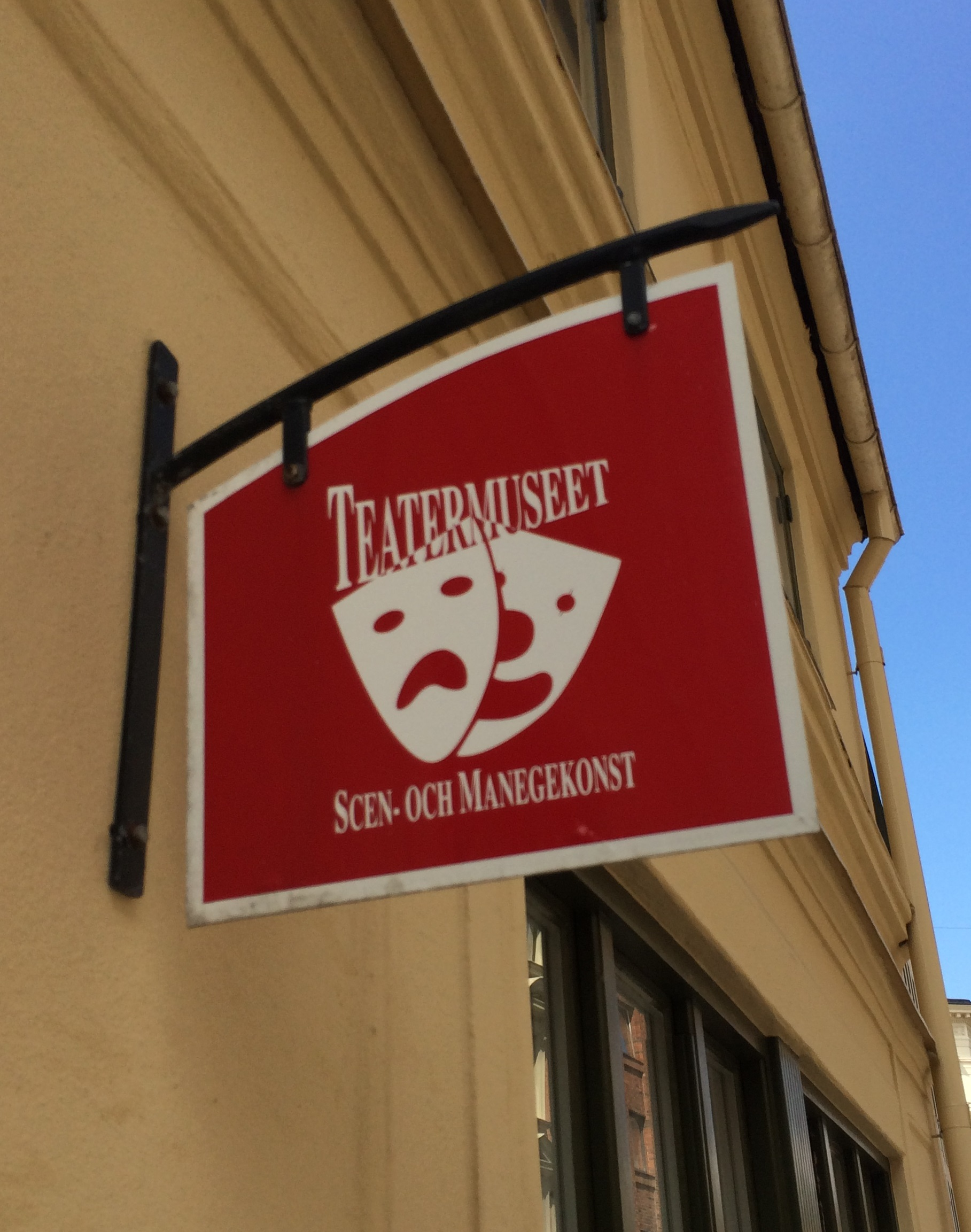 Sign outsite Teatermuseets (the Theater museum) in Malmö, Sweden.